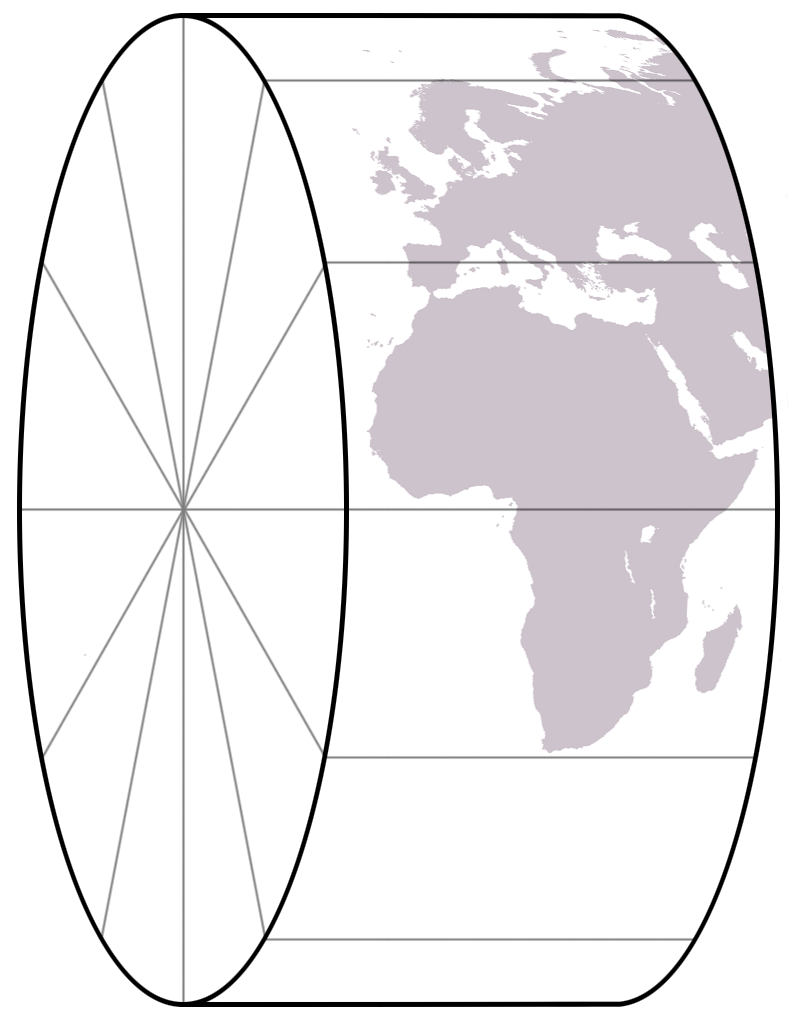 According to Schiaparelli, the inhabitants of the cylindrical earth of Anaximander did not populate its flat surface, but the convex one. In this way, various phenomena would have been explained, such as the different elevation of the constellations in the sky according to the latitude at which the observer is located, the north-south climatic variations, etc.